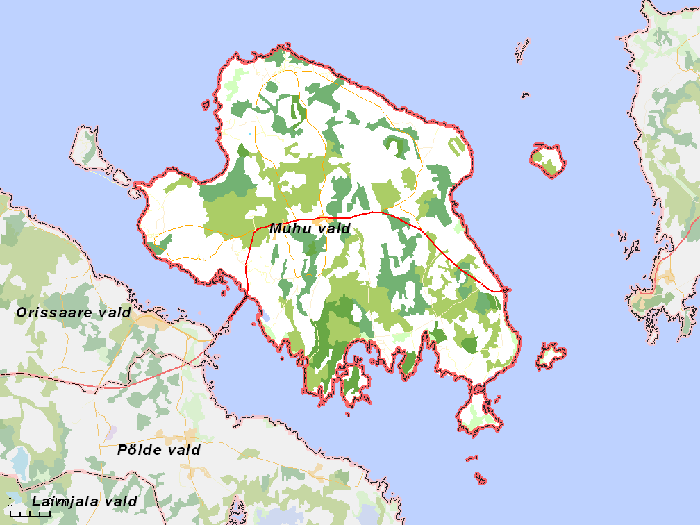 Map of municipality in Estonia